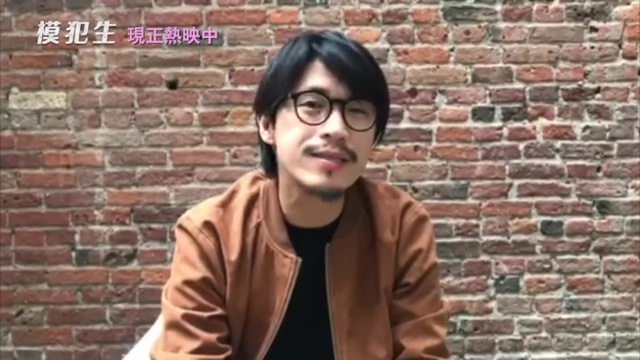 Director Nattawut Poonpiriya from a promotional video clip for the Taiwan release of Bad Genius